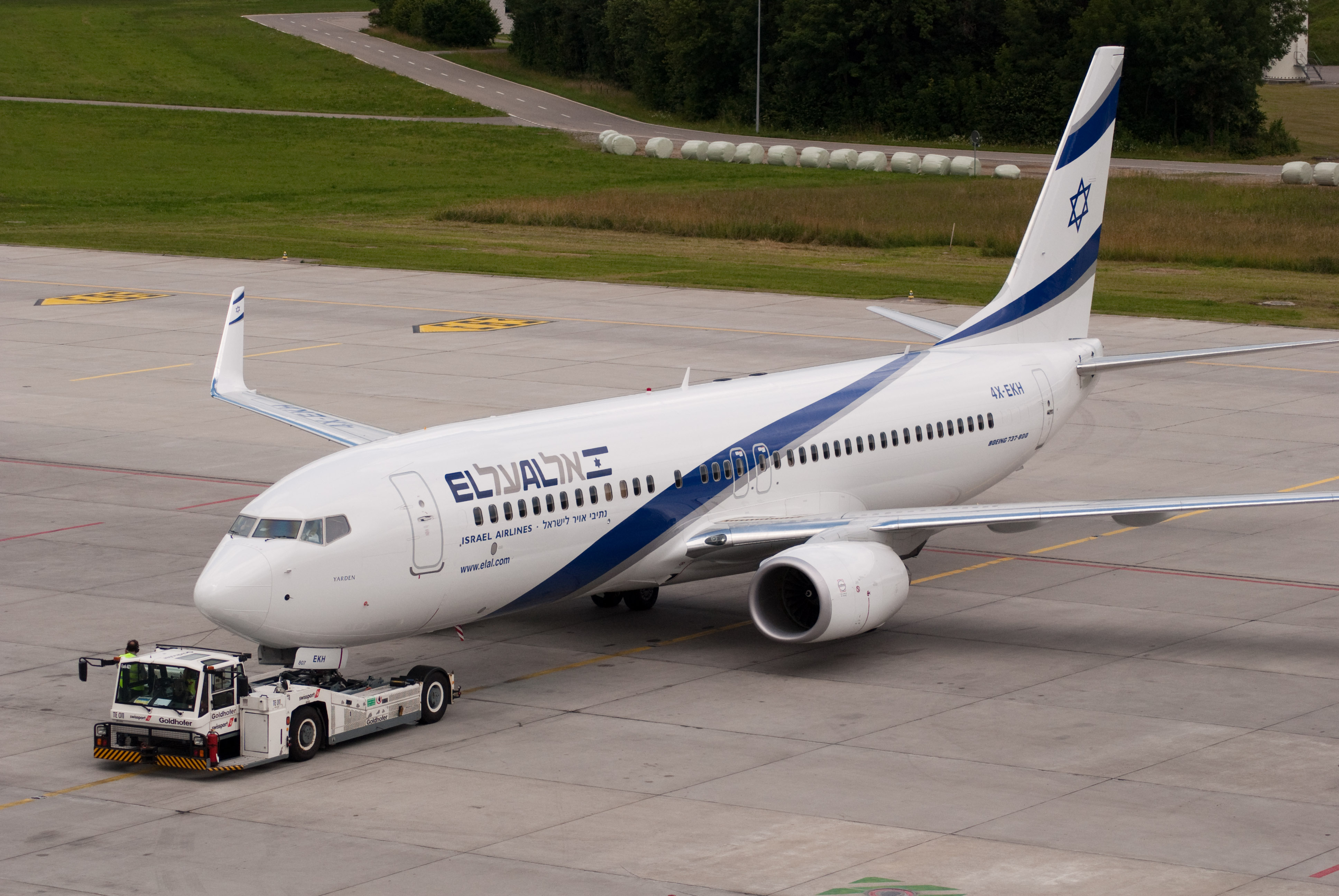 EL-AL Boeing 737-800 (4X-EKH) "Yarden" with winglets during pushback at Zurich Airport. Swissport